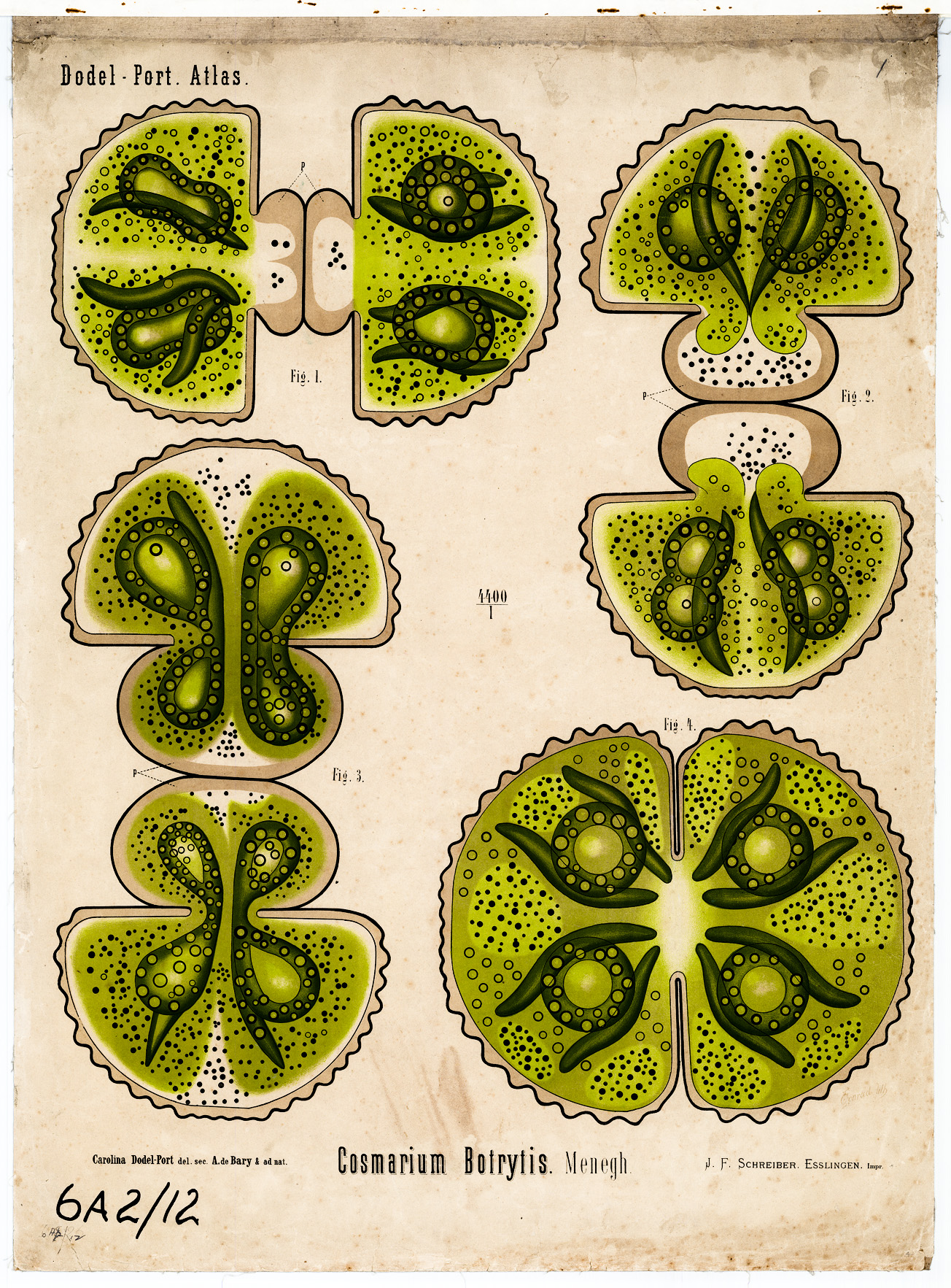 For background and links, please see